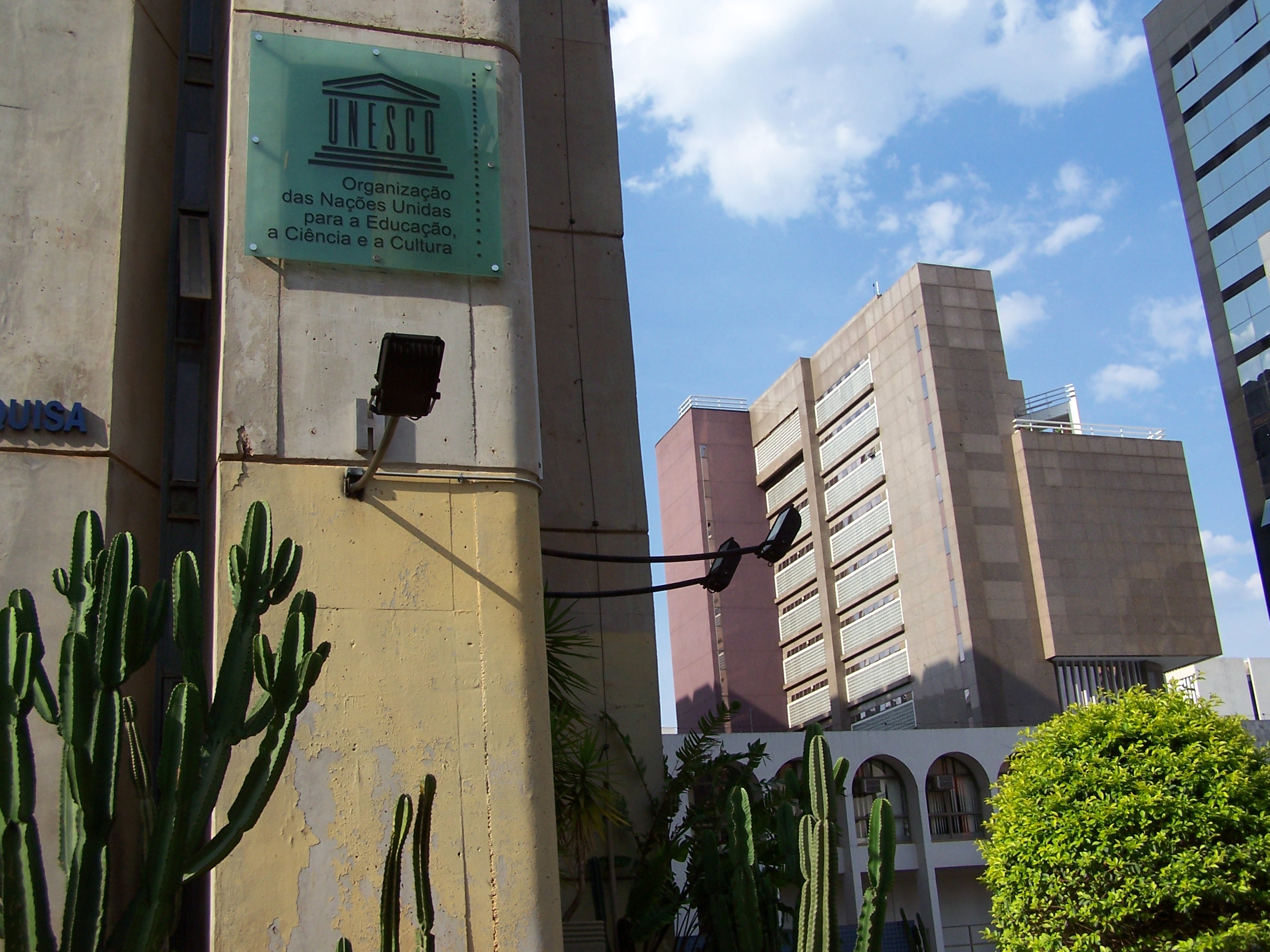 UNESCO office in Brasilia, Brazil.